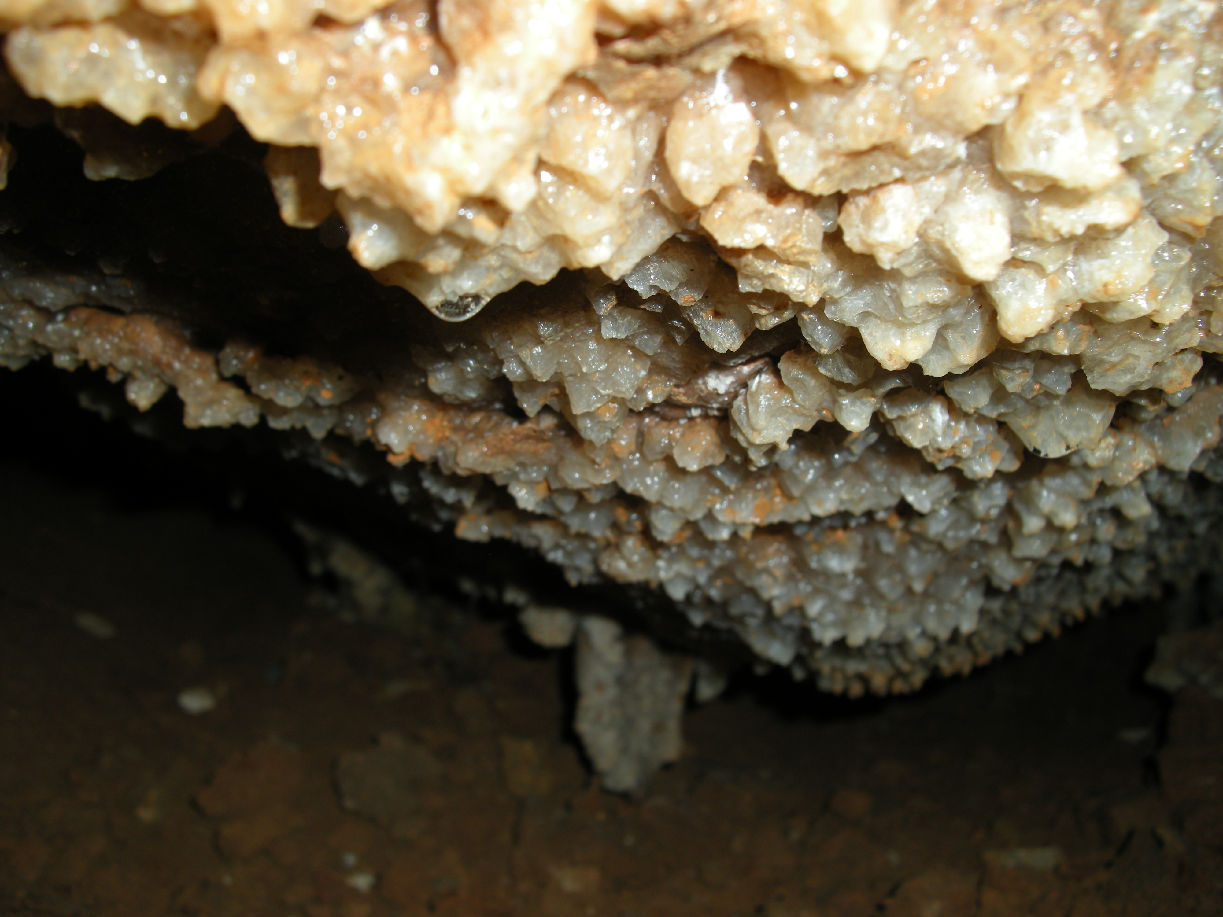 Deposition of calcite - Caves of Lacave, Lot (France).